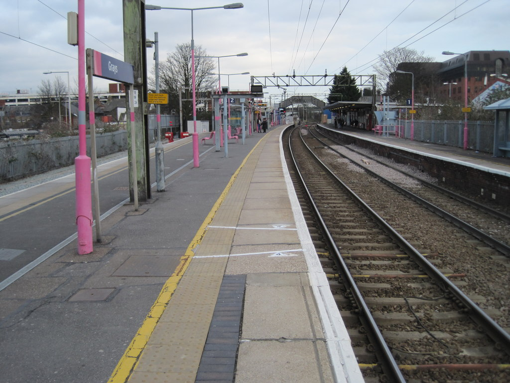 Grays railway station, EssexOpened in 1854 by the London Tilbury & Southend Railway on what is now the Tilbury loop. View east towards Tilbury & Southend.